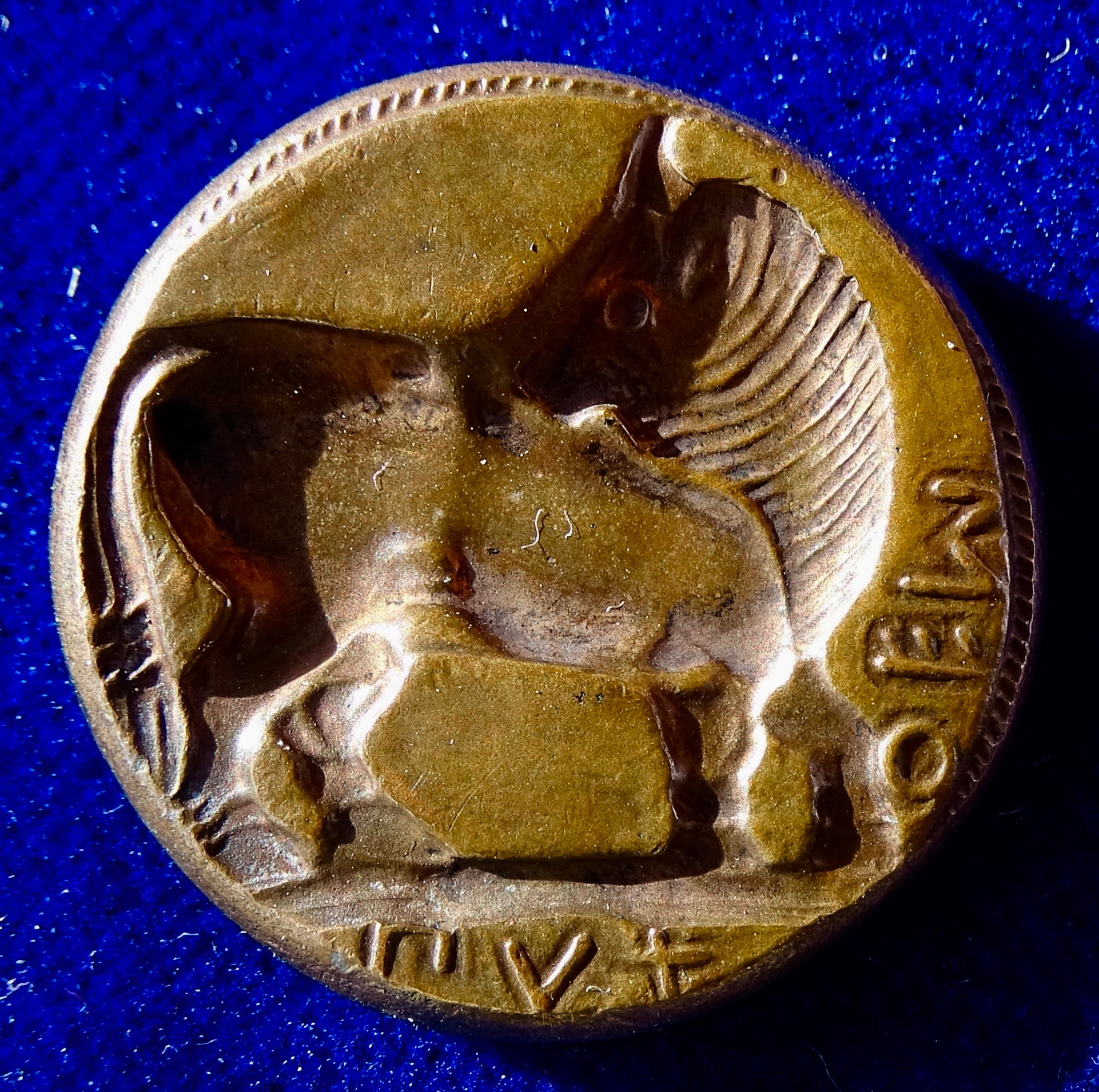 Lucania (southern Italy), Ionian colony Siris, Tetradrachm about 520 B.C. Original creation by Carl Wilhelm Becker. Siris was a Greek colony which at one time attained to a great amount of wealth and prosperity; however, its history is extremely obscure and uncertain. D. = 28 mm. 18.69 g Ag Standing Bull l. looking back. In ex and at l.: "MZPZNOM"/ Bull incuse standing r., and looking l. In exergue and at r.: "PVXOEM. Forrer I, p.145, no. 11; Sir George Hill, Becker the Counterfeiter, no. 11. Medallist: Carl Wilhelm Becker, 1771 Speyer - 1830 Bad Homburg, Germany Becker was one of the most skilful counterfeiters of ancient coins of all times. The dies of his Greek counterfeits now belong to the Berlin Bode Museum. The Bode Museum is one of the group of museums on the Museum Island in Berlin. Originally called the Kaiser-Friedrich-Museum after Emperor Frederick III, the museum was renamed in honour of its first curator, Wilhelm von Bode, in 1956. It is part of the Berlin State Museums. In 1999, the museum complex was added to the UNESCO list of World Heritage Sites. Condition: The original silver strike by Becker had been "taken for a drive" with iron fillings in a box attached to the wheel of his carriage. So it looks a bit worn in comparison to the copper strike from the original dies.